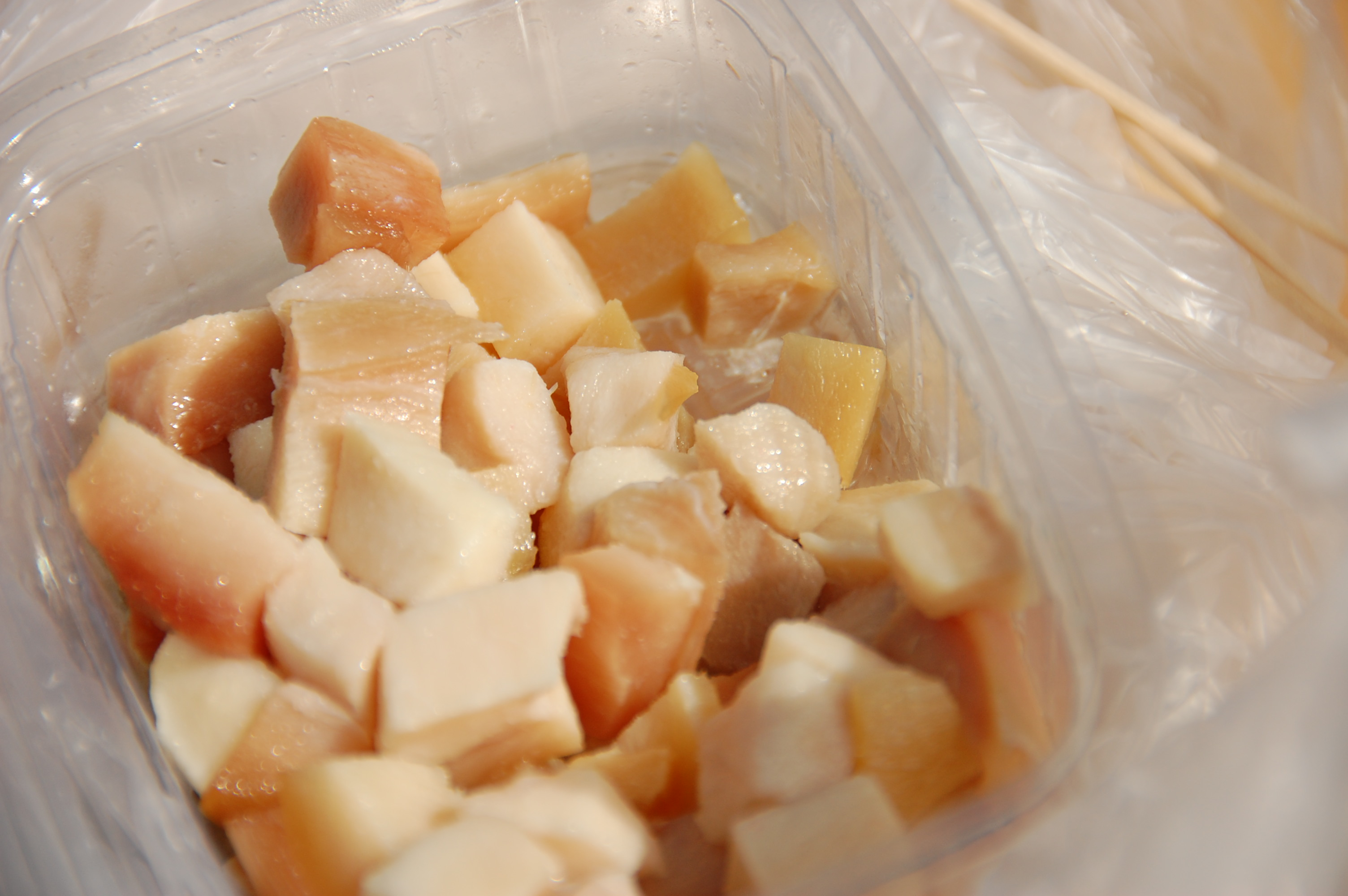 Icelandic for "fermented shark") It is a Greenland or basking shark which has been cured with a particular fermentation process and hung to dry for 4-5 months. Hákarl has a very particular ammonia-rich smell and taste, similar to very strong cheese.